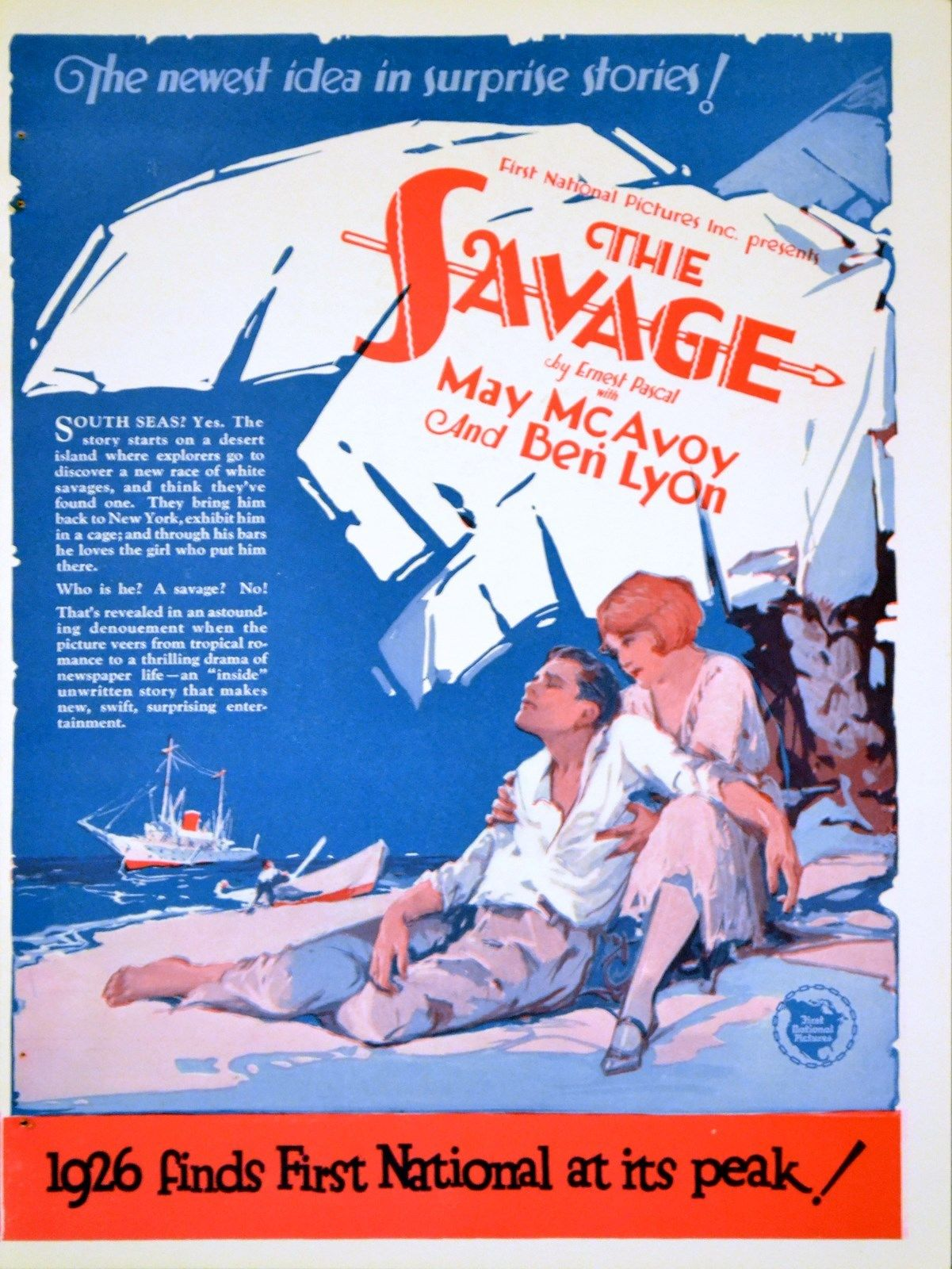 Copy of an advertisement for the 1926 film The Savage from the publication Motion Picture News. First National did not mark the ad as copyrighted; copyrights for Motion Picture News would not apply to the ad. (A check of periodical renewals for the years 1953 and 1954 indicate Motion Picture News did not renew their copyright for 1926 issues of the trade journal.) There are no copyright marks on the ad. US Copyright Office page 3-magazines are collective works (PDF) "A notice for the collective work will not serve as the notice for advertisements inserted on behalf of persons other than the copyright owner of the collective work. These advertisements should each bear a separate notice in the name of the copyright owner of the advertisement."